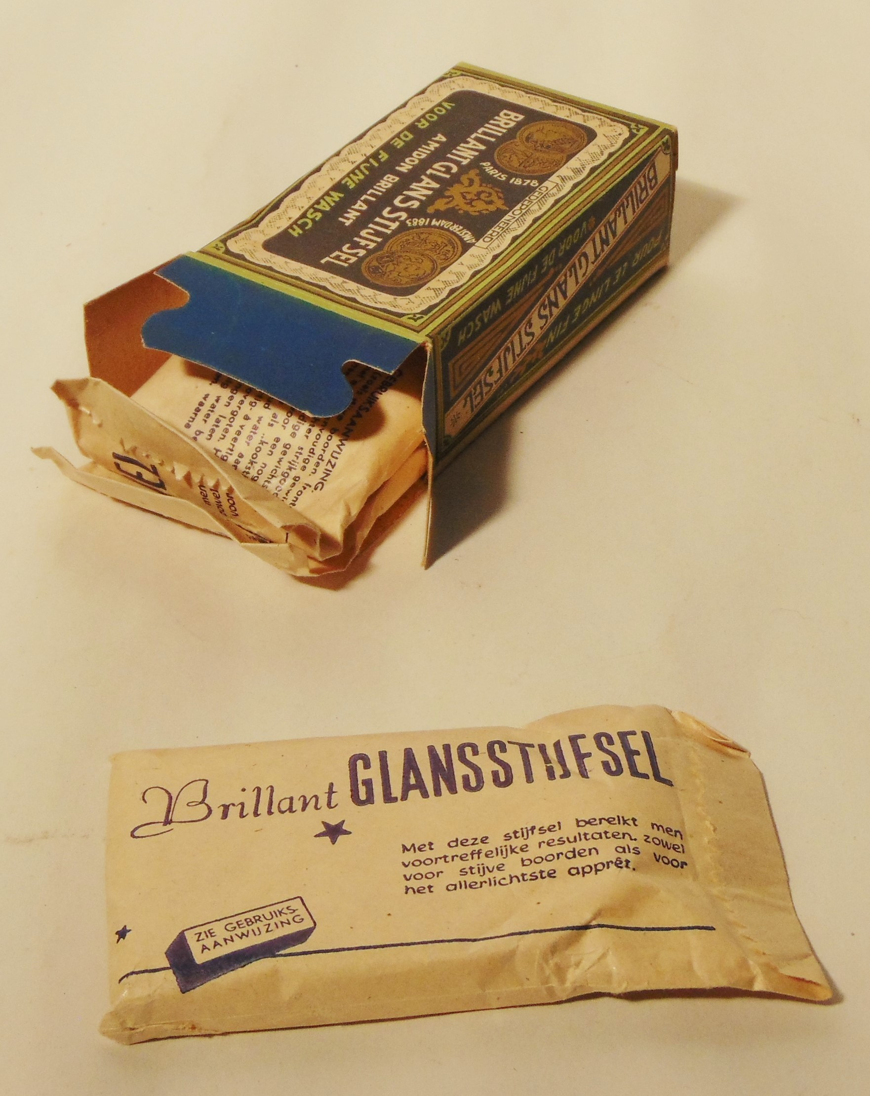 Clothing starch, the Netherlands, 1940s Photographed in the collection of the National Liberation Museum 1944-1945, the Netherlands, archive number 087.053c